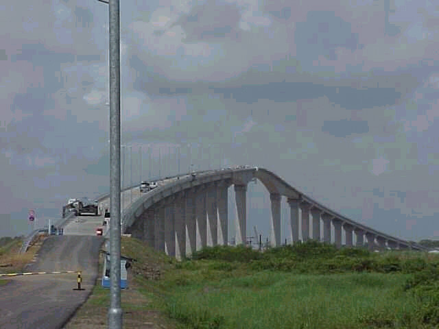 Jules Wijdenbosch Bridge. Jules Albert Wijdenbosch Brug. ગુજરાતી: સુરીનામ નદી પરનો ૫૩ મીટર ઊંચો સેતુ. Papiamentu: Jules Wijdenbosch Brug.